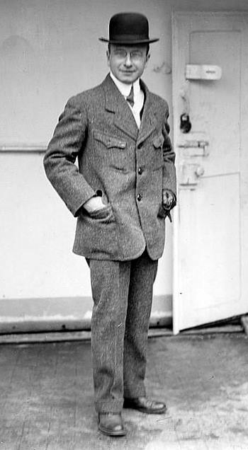 Photo shows French doctor Alexis Carrel (1873-1944) who won the Nobel Prize for Medicine in 1912. (Source: Flickr Commons project, 2008)